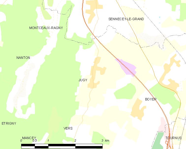 Map of French municipality